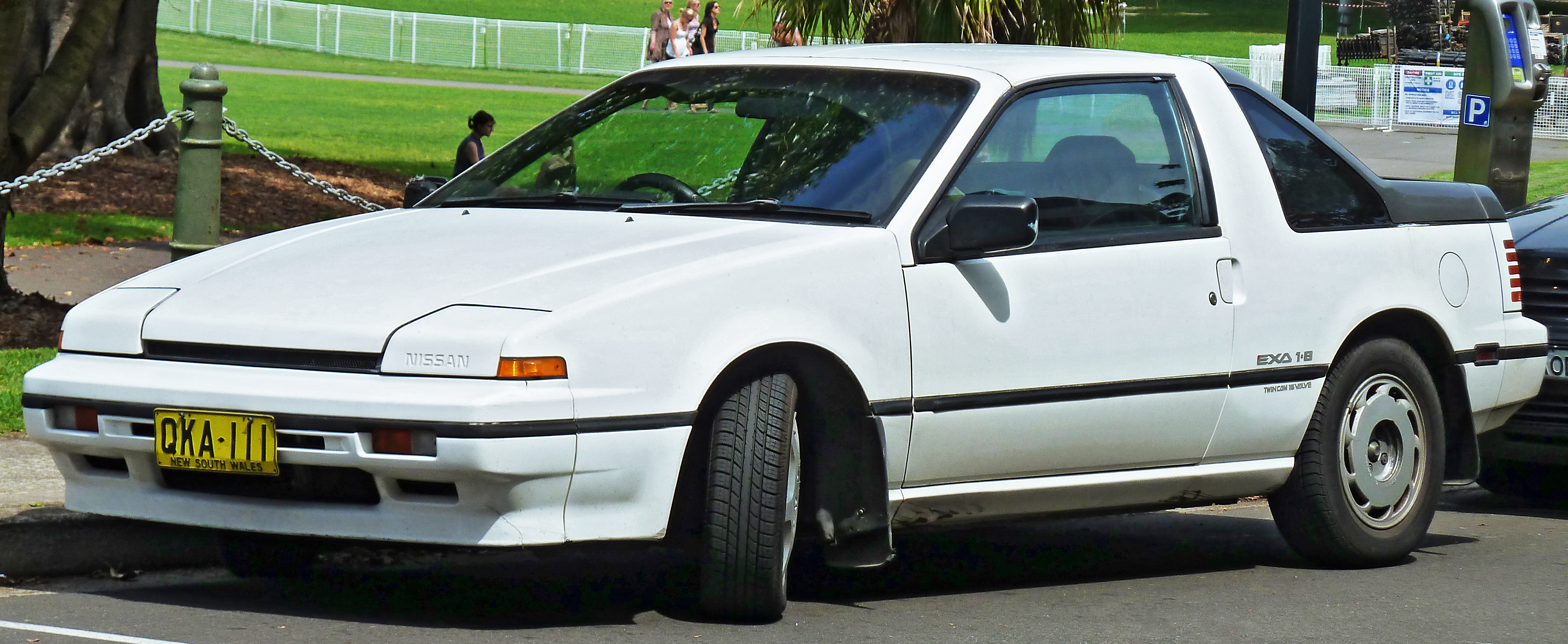 1988 Nissan EXA (N13) coupe. Photographed in Sydney, New South Wales, Australia.